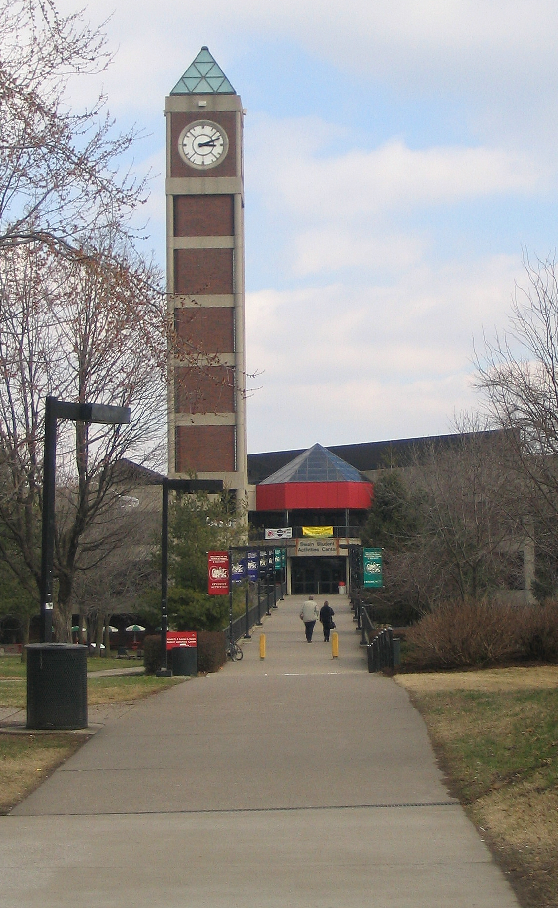 University of Louisville clocktower